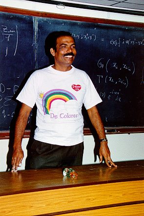 Professor Rajiah Simon